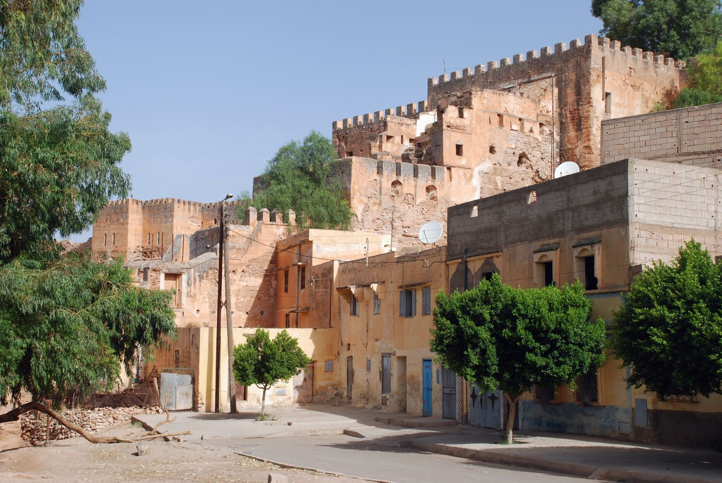 Kasba Tadla, Morocco, Kasba from the river